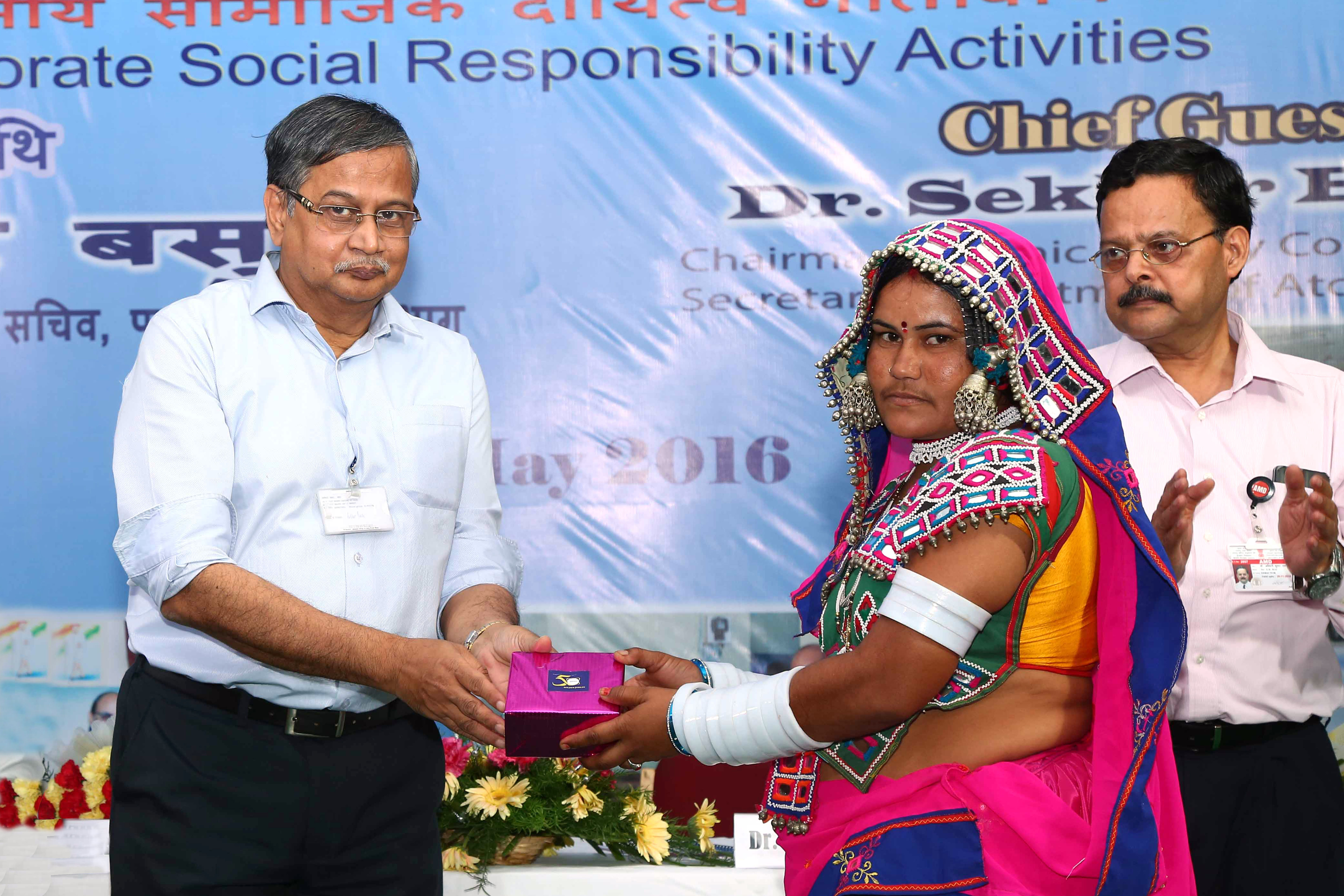 LED Lamps made by ECIL, DAE being distributed as a part of CSR activity